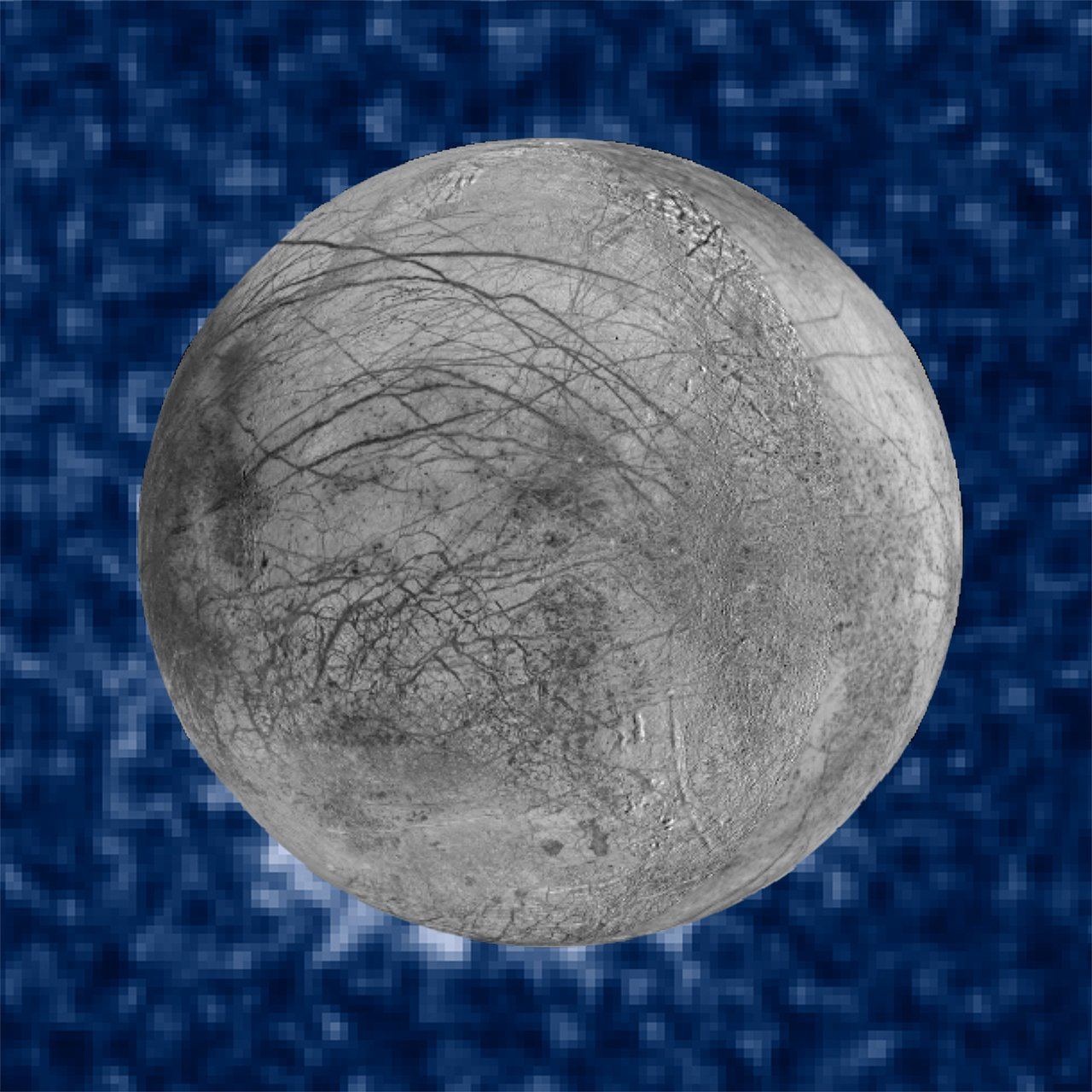 This composite image shows suspected plumes of water vapor erupting at the 7 o'clock position off the limb of Jupiter's moon Europa. The plumes, photographed by Hubble’s Imaging Spectrograph, were seen in silhouette as the moon passed in front of Jupiter. Hubble's ultraviolet sensitivity allowed for the features, rising over 160 kilometres above Europa's icy surface, to be discerned. The water is believed to come from a subsurface ocean on Europa. The Hubble data were taken on January 26, 2014. The image of Europa, superimposed on the Hubble data, is assembled from data from the Galileo and Voyager missions.